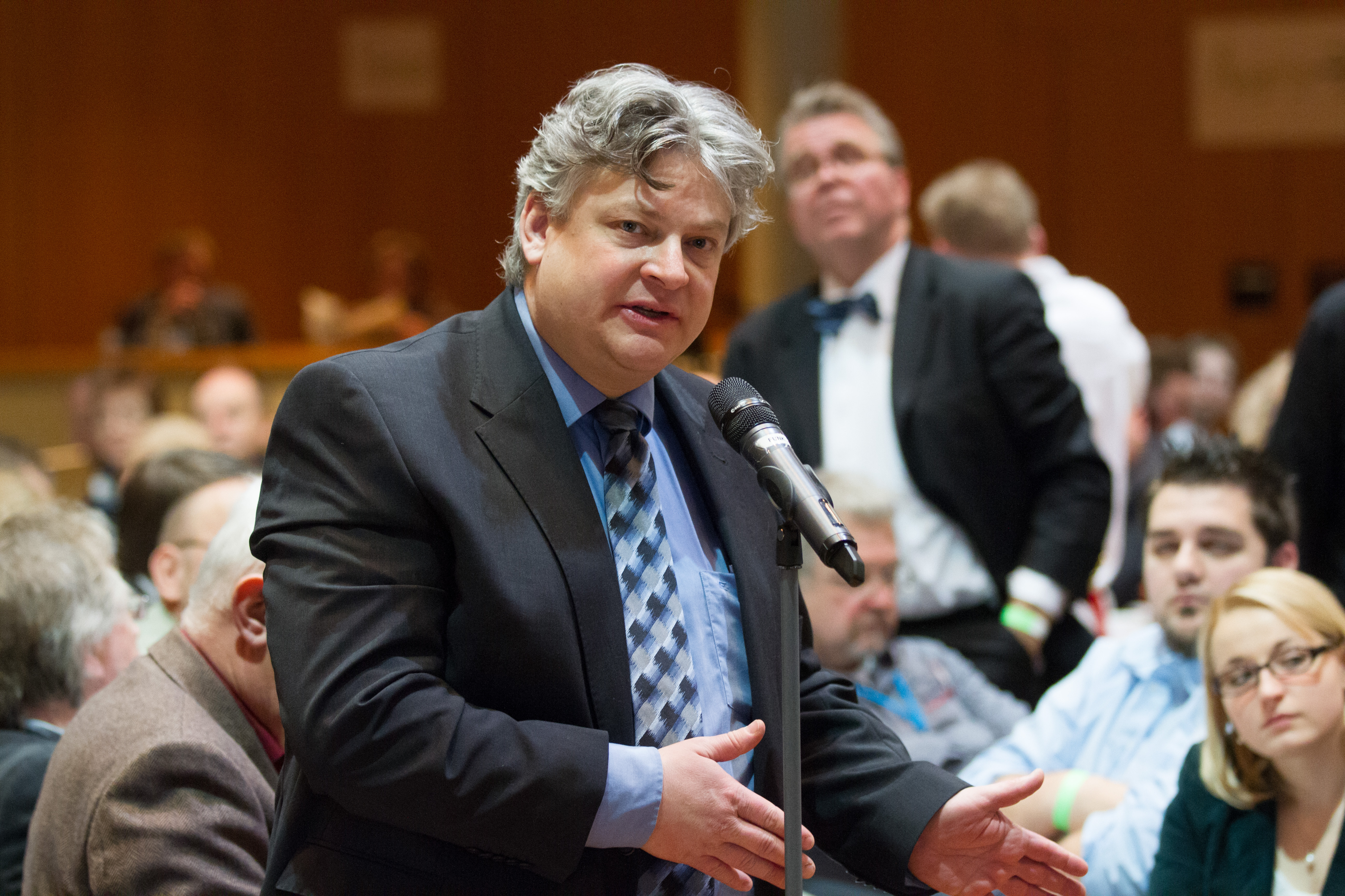 Series: 6th party convention of the AfD Baden-Württemberg in Karlsruhe-Neureuth on January 17th and 18th, 2015.Image: Thomas Seitz